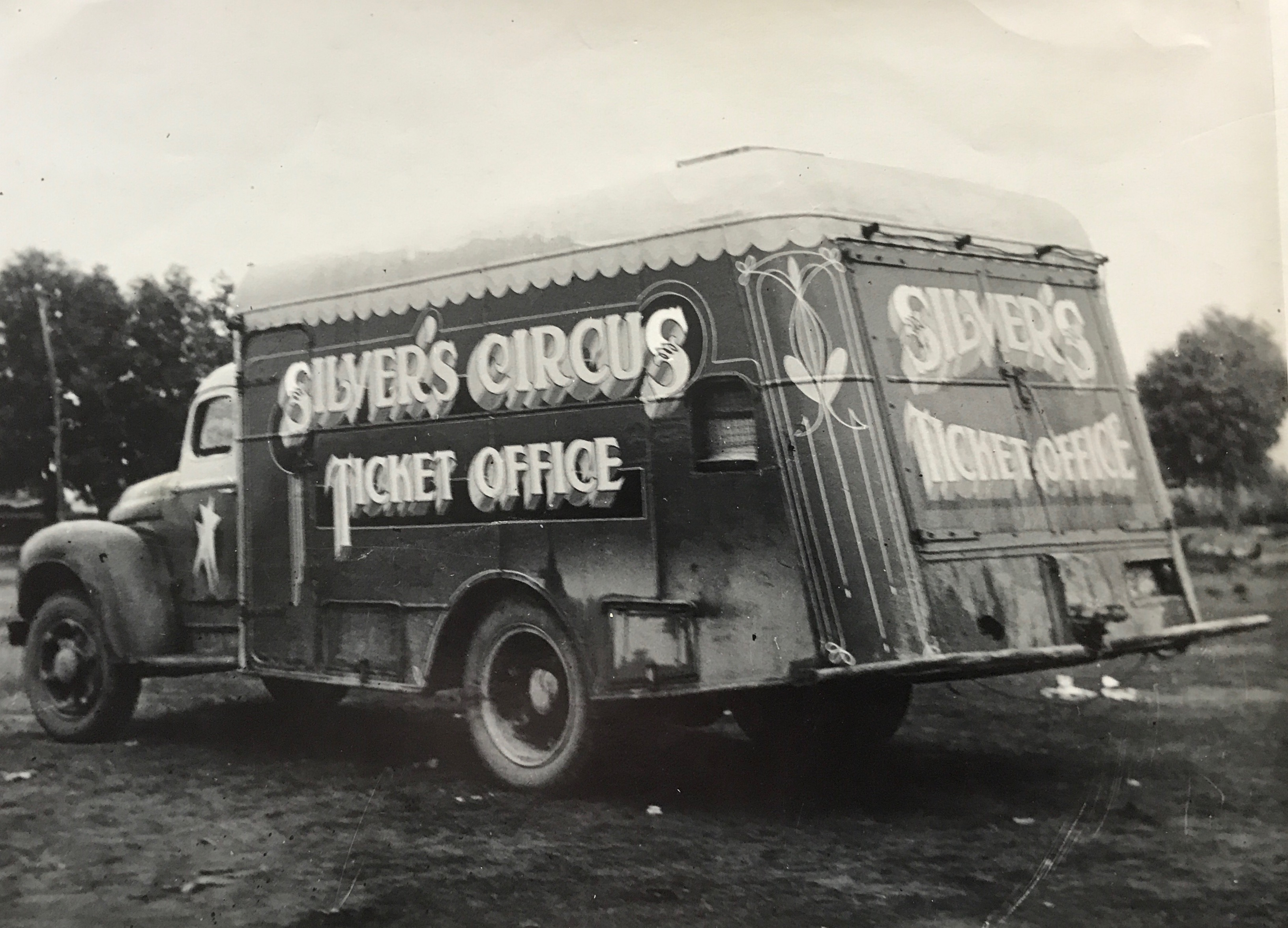 The truck used as the ticket office for Silver's Circus in the 1960's.